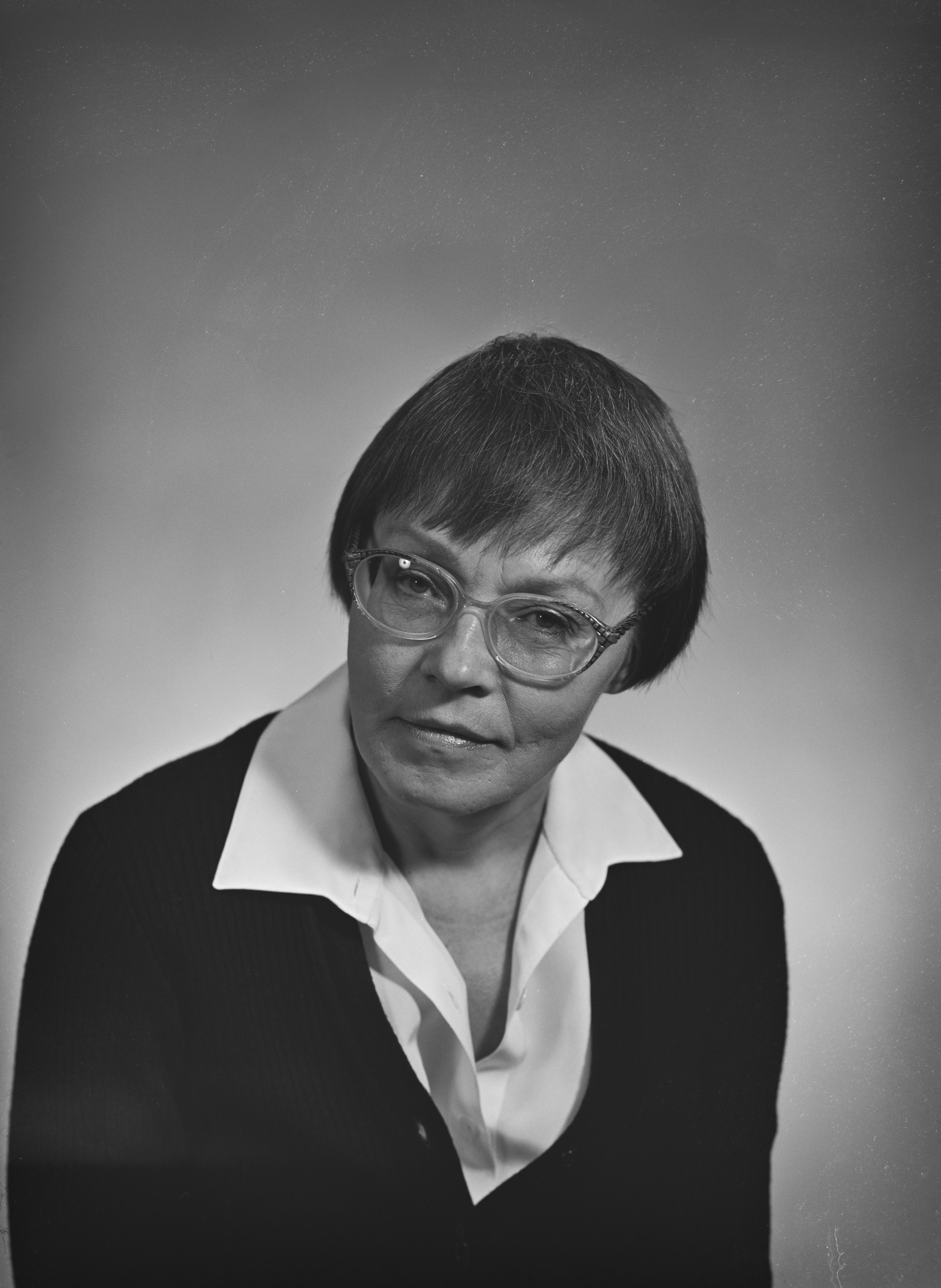 Photograph of the Finnish lawyer and professor Pirkko K. Koskinen (1932–2012).